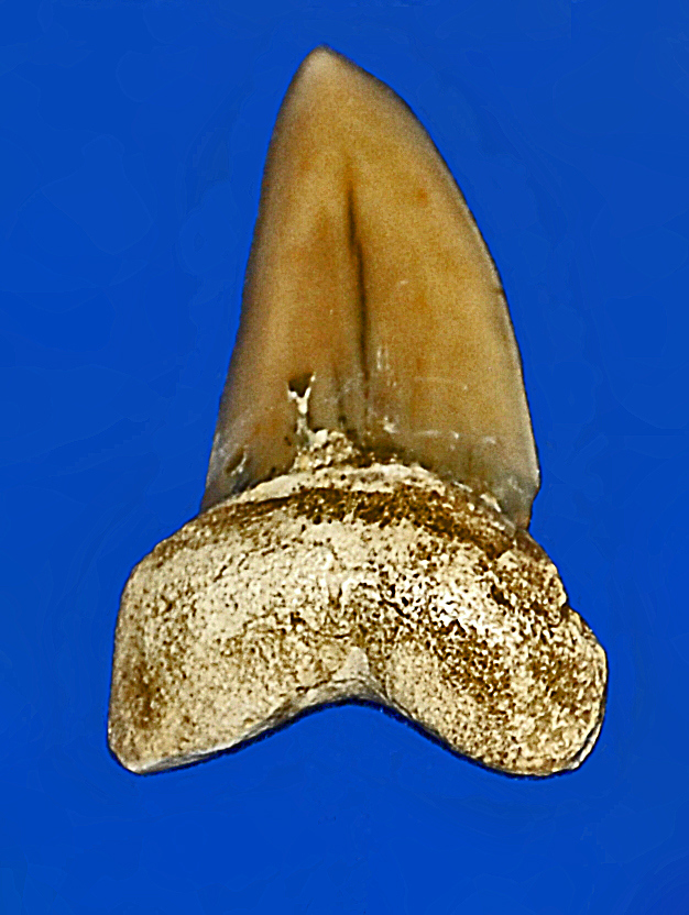 Fossil tooth of Cosmopolitodus hastalis from Pliocene of Italy, on display at the Museo Paleontologico, Asti